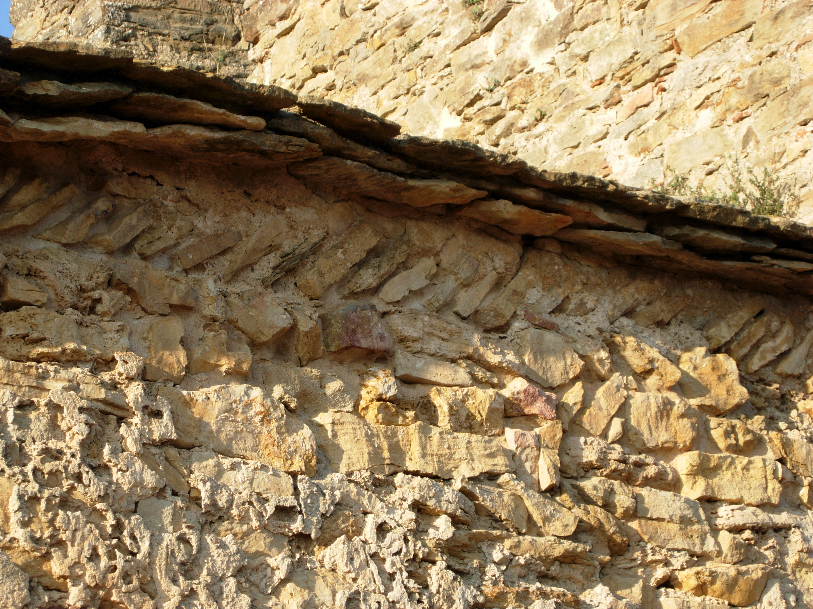 pared en opus spicatum